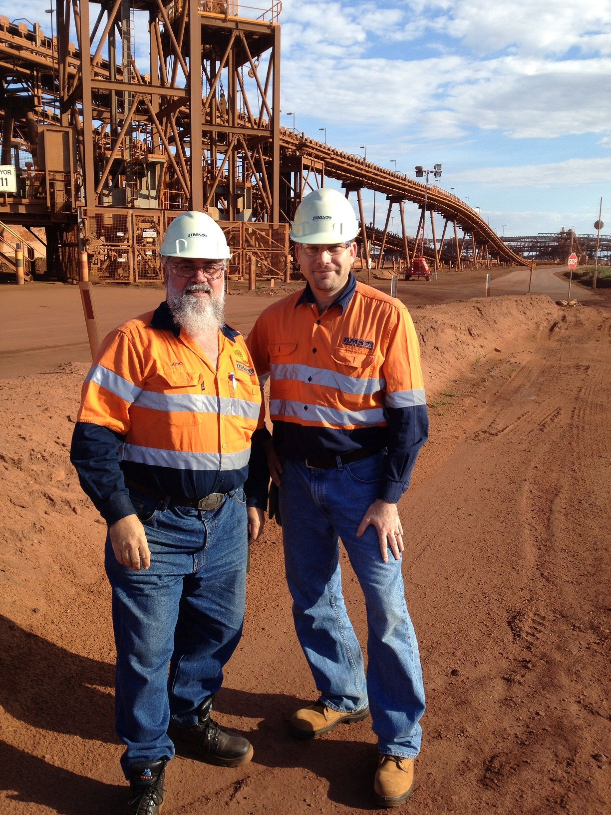 Jan Norberger on a mine site visit as General Manager of Richards Mining Services, circa 2012.